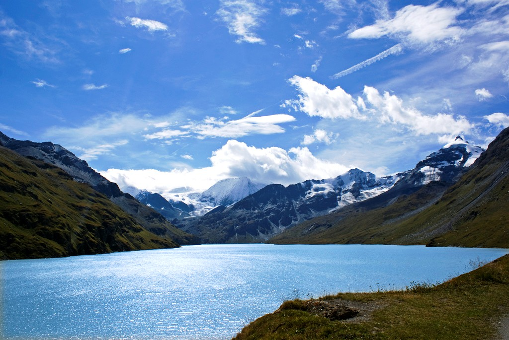 Lac des Dix (Grande Dixence), Valais. Mont Blanc de Cheilon in the centre, La Luette and La Sâle in the right